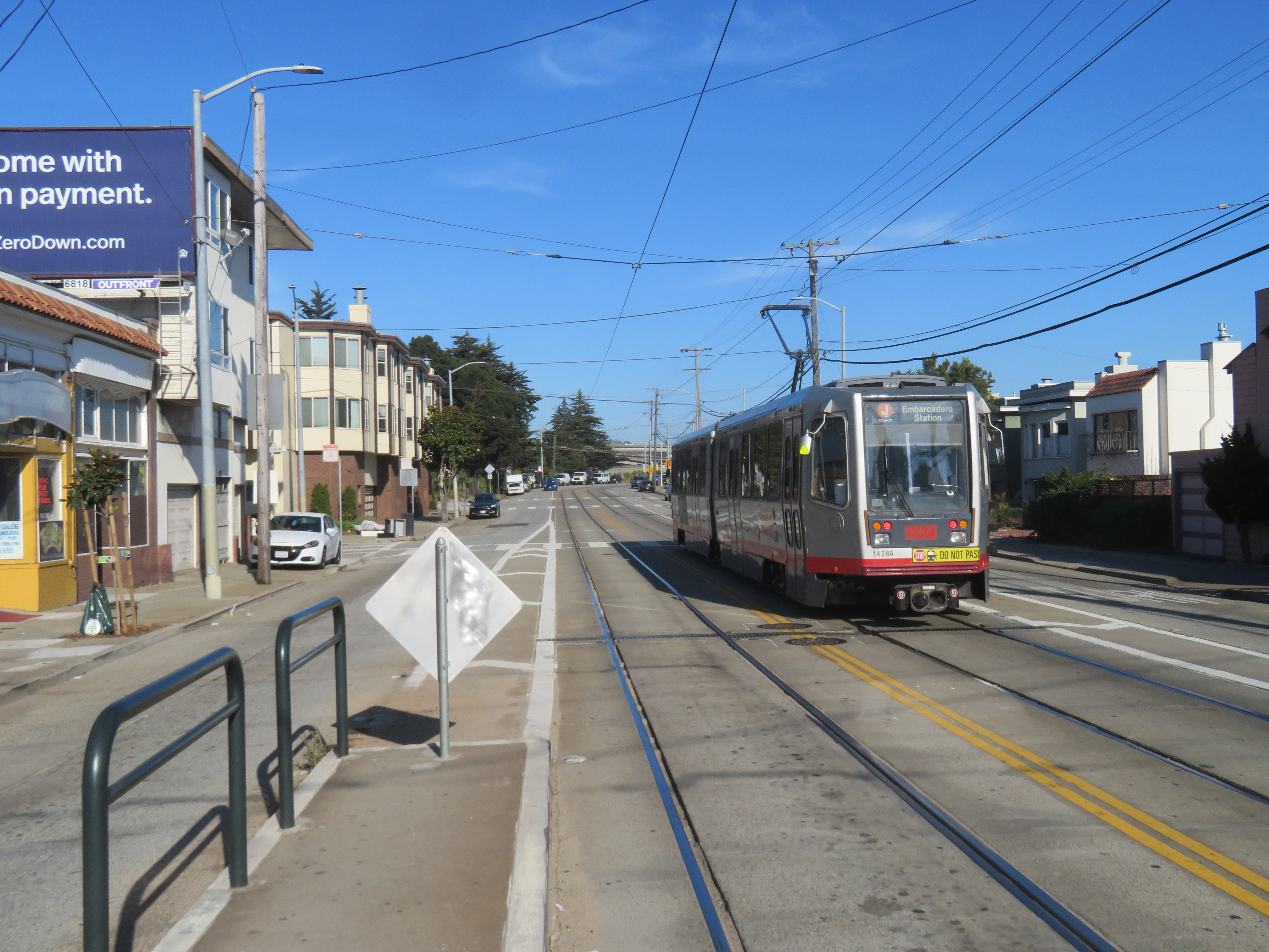 An inbound train at San Jose and Santa Rosa station in November 2019